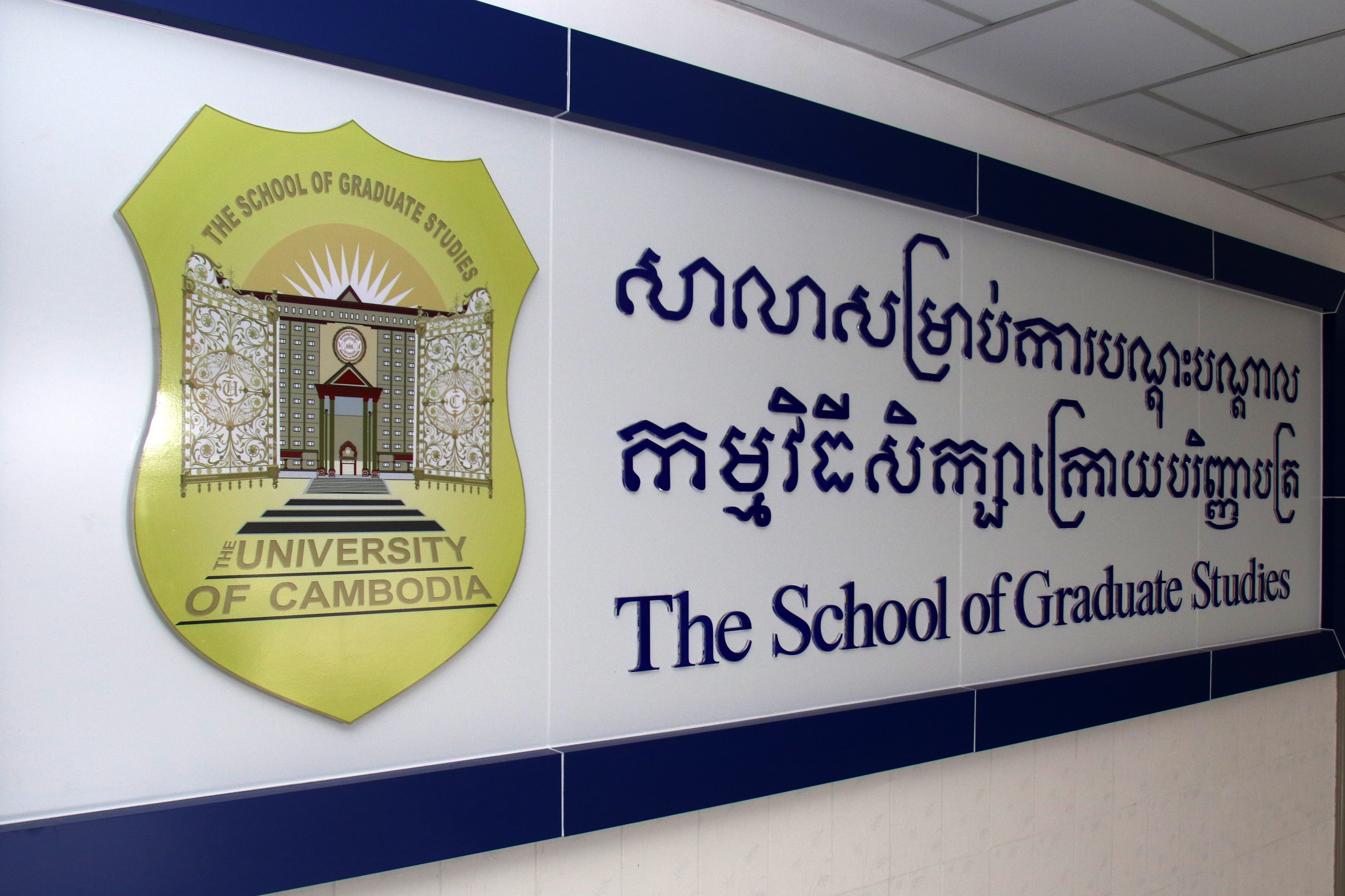 Photo of the UCGS sign at The University of Cambodia's Phnom Penh Campus - 9th floor